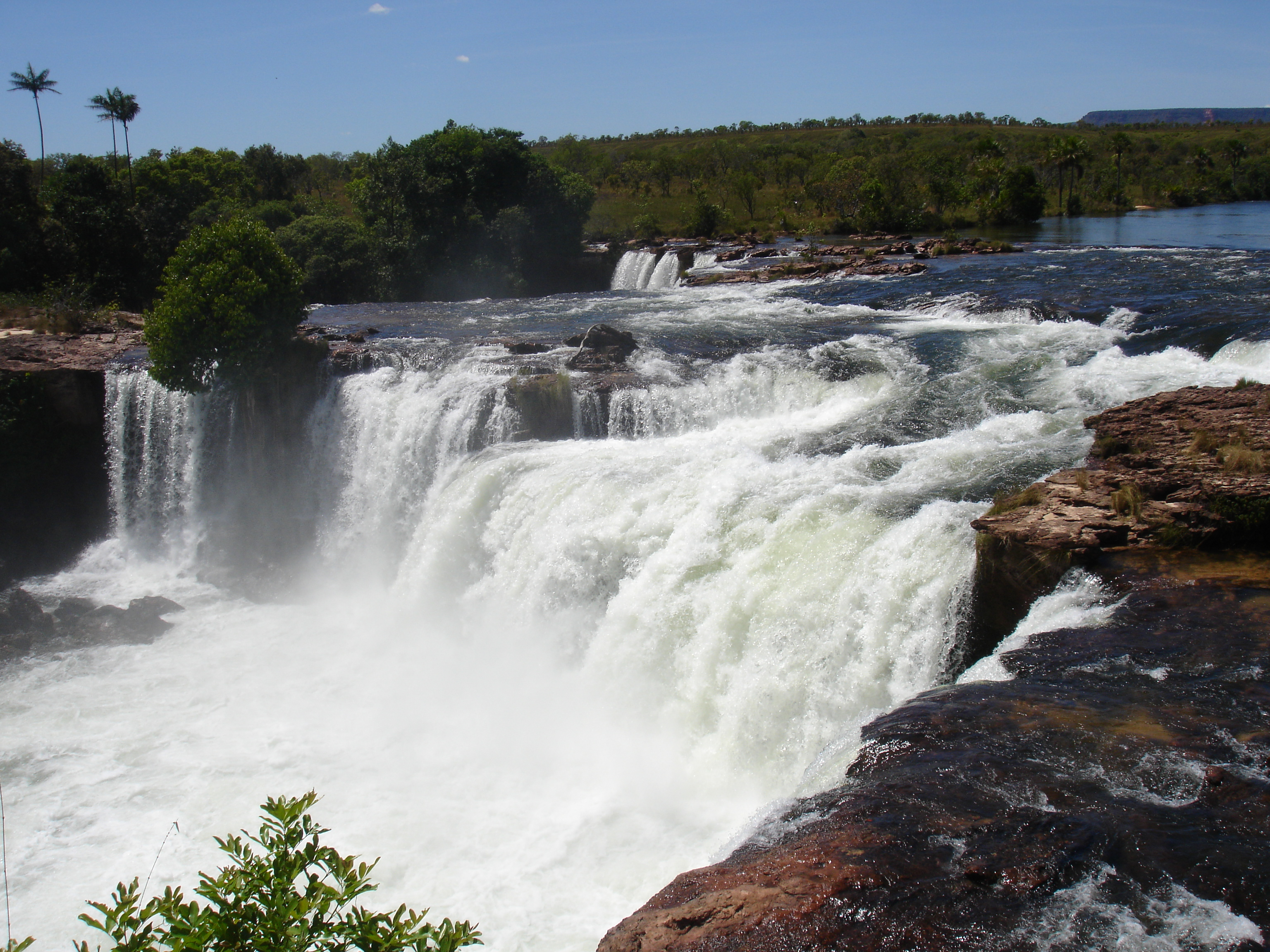 Velha waterfall. The river is the Rio Novo, one of the biggest rivers whose water is still drinkable.